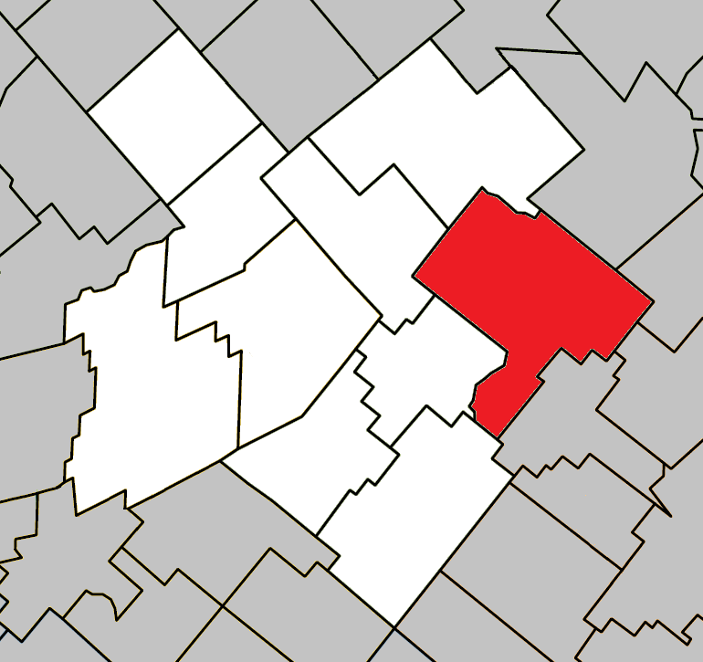 Location of Inverness, Quebec within L'Érable Regional County Municipality.